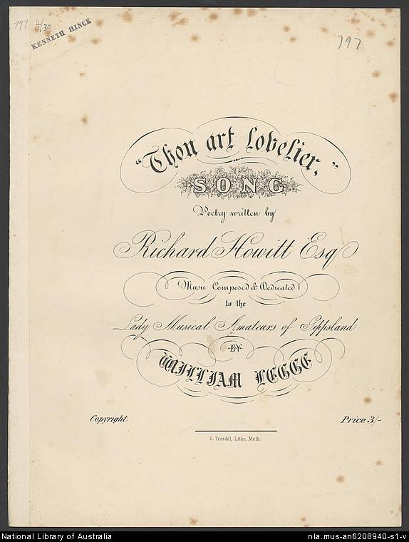 Front sheet of sheet music with words by Richard_Howitt. Music by William Legge